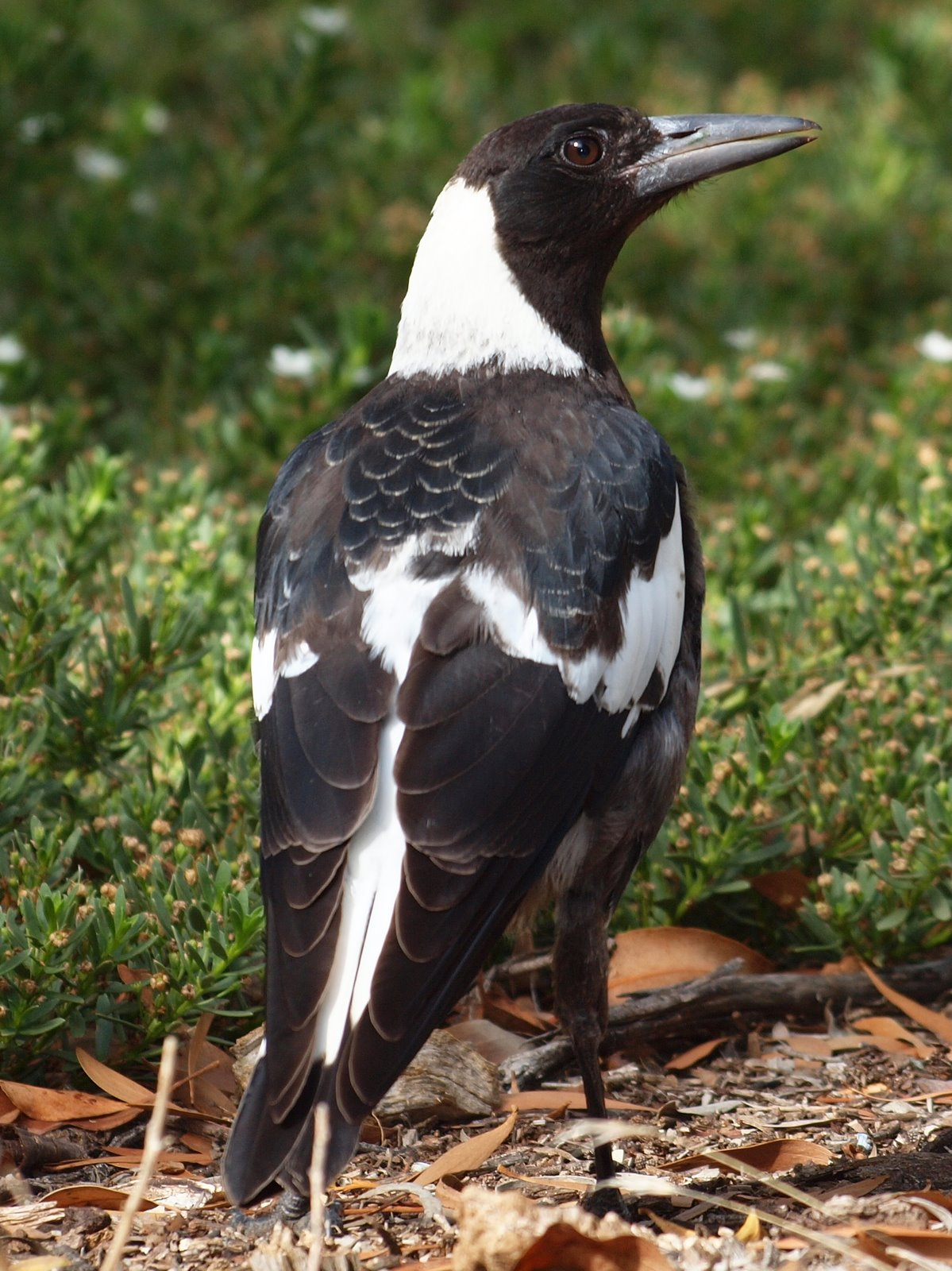 An Australian Magpie in Canberra, Australia.